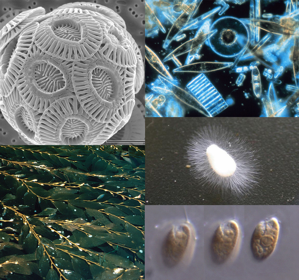 A collage made from images all already on Wikimedia Commons